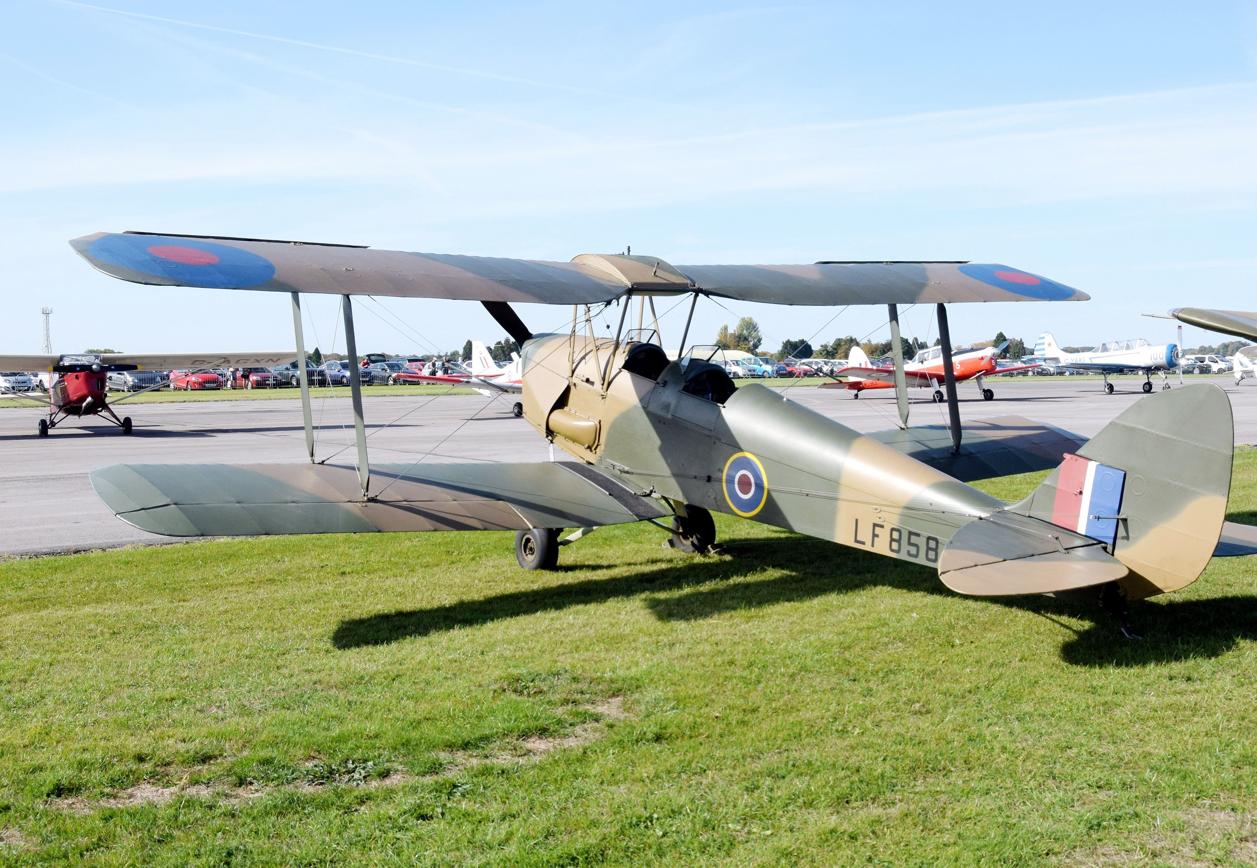 ex-RAF de Havilland DH-82B Queen Bee on static display at the 2018 Cotswold Airport Revival Festival, Gloucestershire, England. Built 1944 in Glasgow as Royal Air Force LF858, now privately owned as G-BLUZ. The fuselage is from a Moth Major and the wings from a Tiger Moth. Over 400 were built. It was flown remotely by a pilot on the ground (no one was onboard!) as a gunnery target. Now converted from remote control to a 2-seater. Kept at RAF Henlow (Bedfordshire) in the ownership of a private syndicate (the Beekeepers Group).